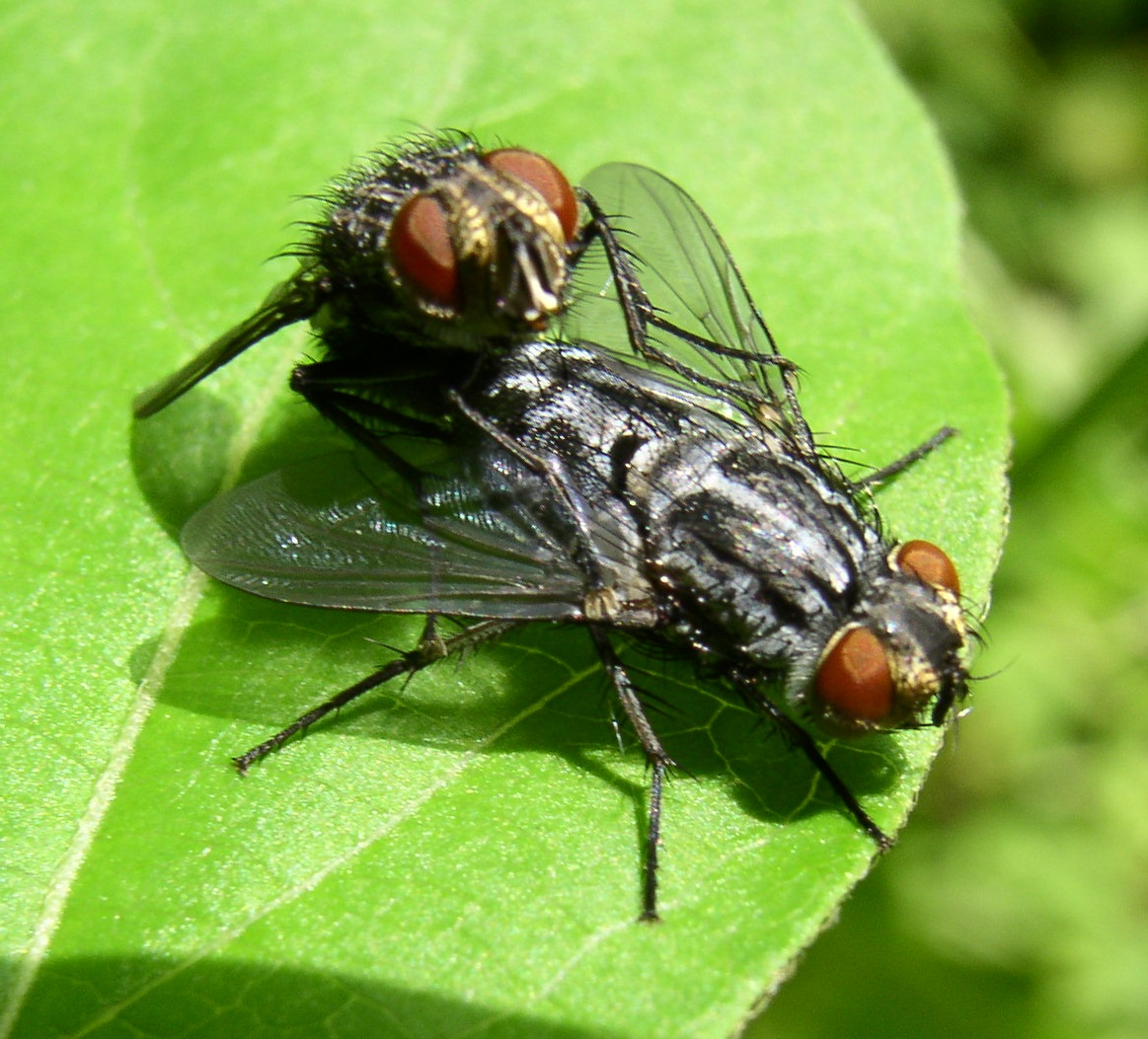 Tachinid flies, Goniini, mating. Pennypack Restoration Trust, Montgomery County, Pennsylvania, USA. 40.1420° N, 75.0830° W.